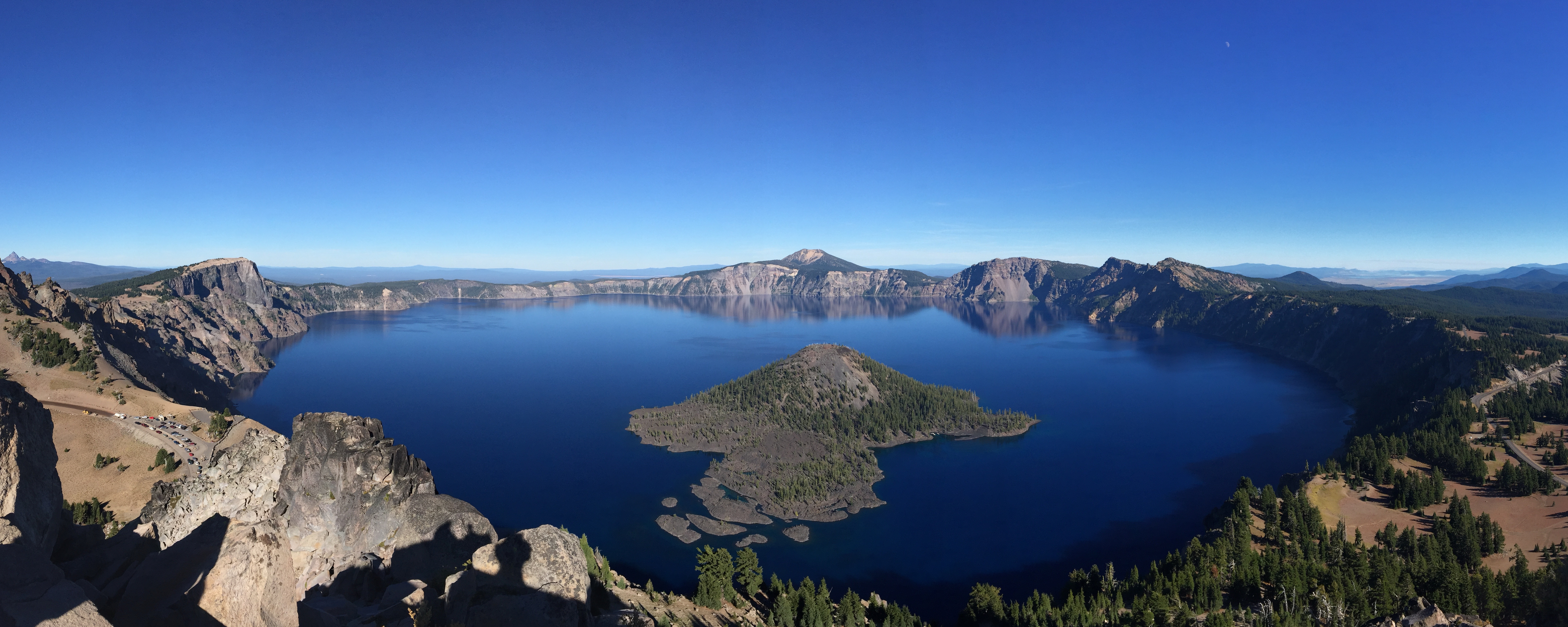 Crater Lake on a clear day from Watchman Lookout Station